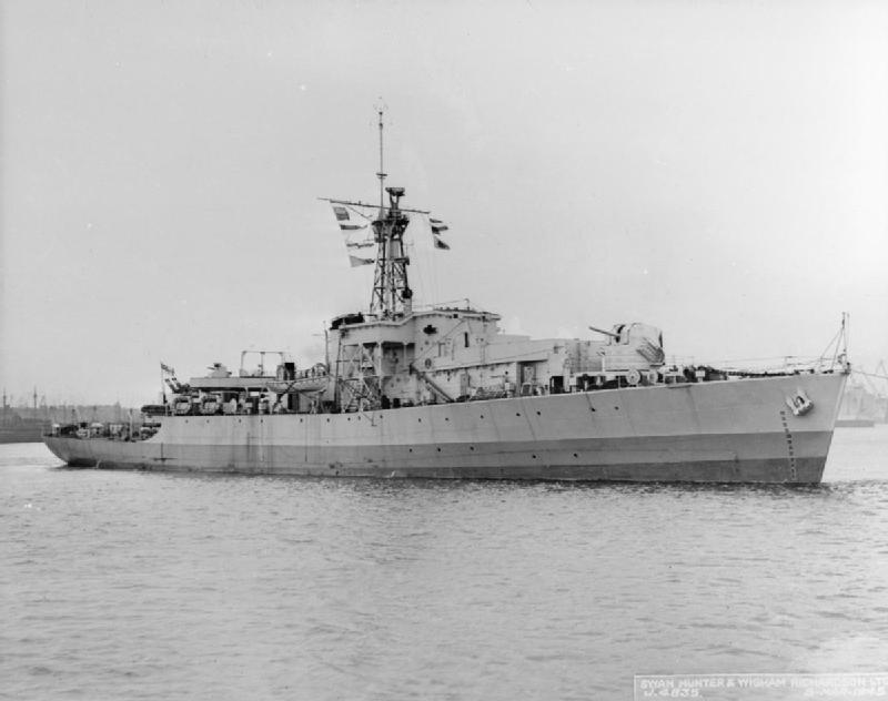 HMSAS Loch Natal, South African Loch Class Frigate. February and March 1945, at Sea.